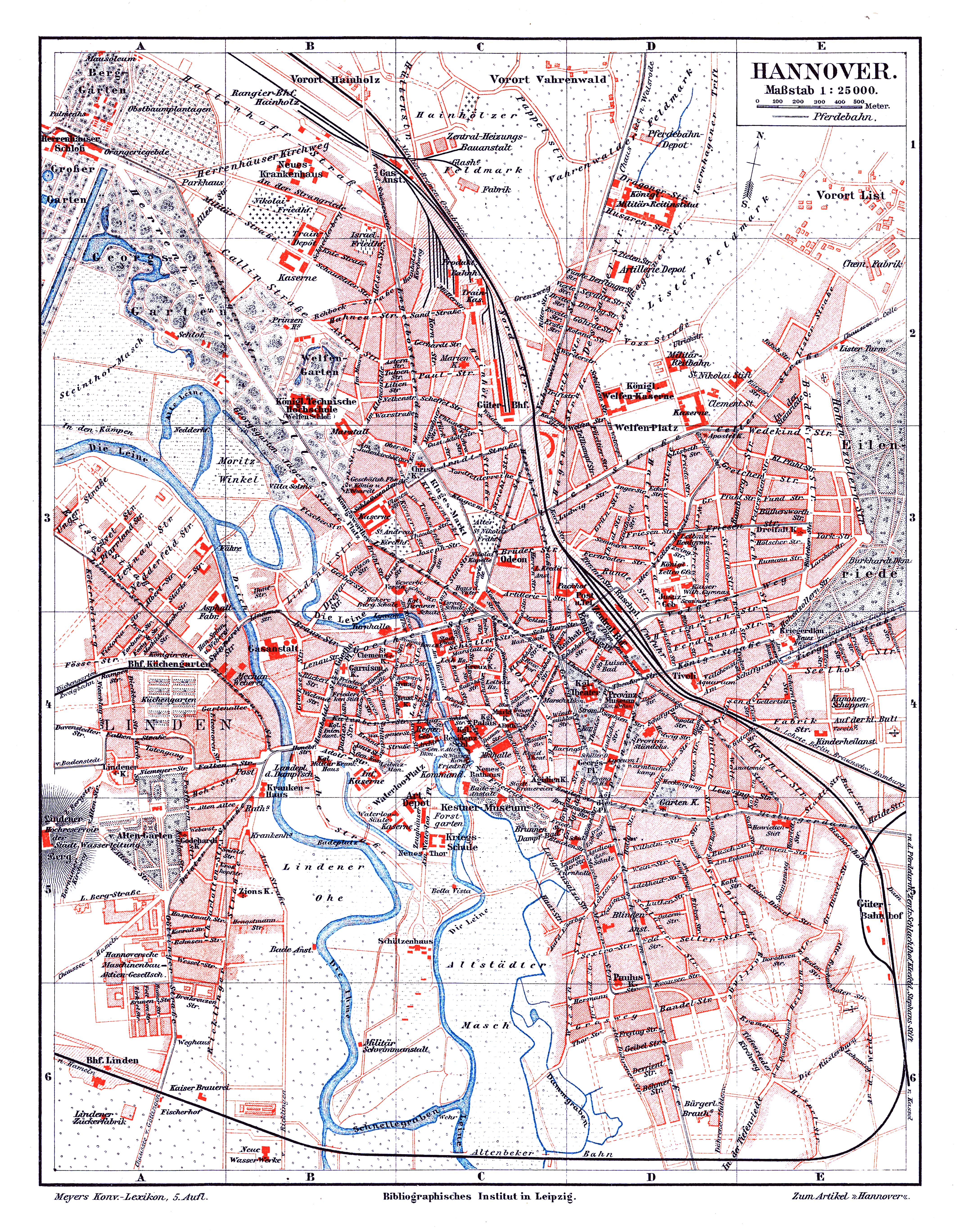 Hanover map 1895 approximately